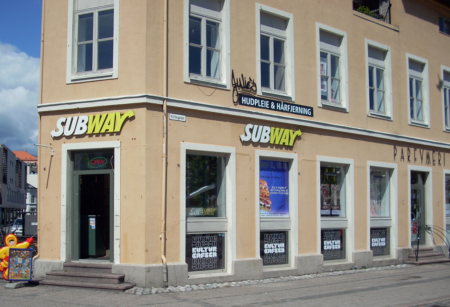 Subway restaurant in Arendal, Norway